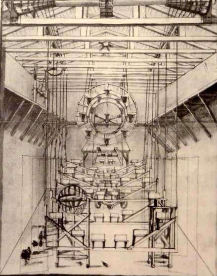 Teatro San Salvador in Venice, drawing of backstage. Unknown Venetian artist, 17th century. Machinery for Giovanni Legenzi's opera "Germanico sul Reno", 1676.